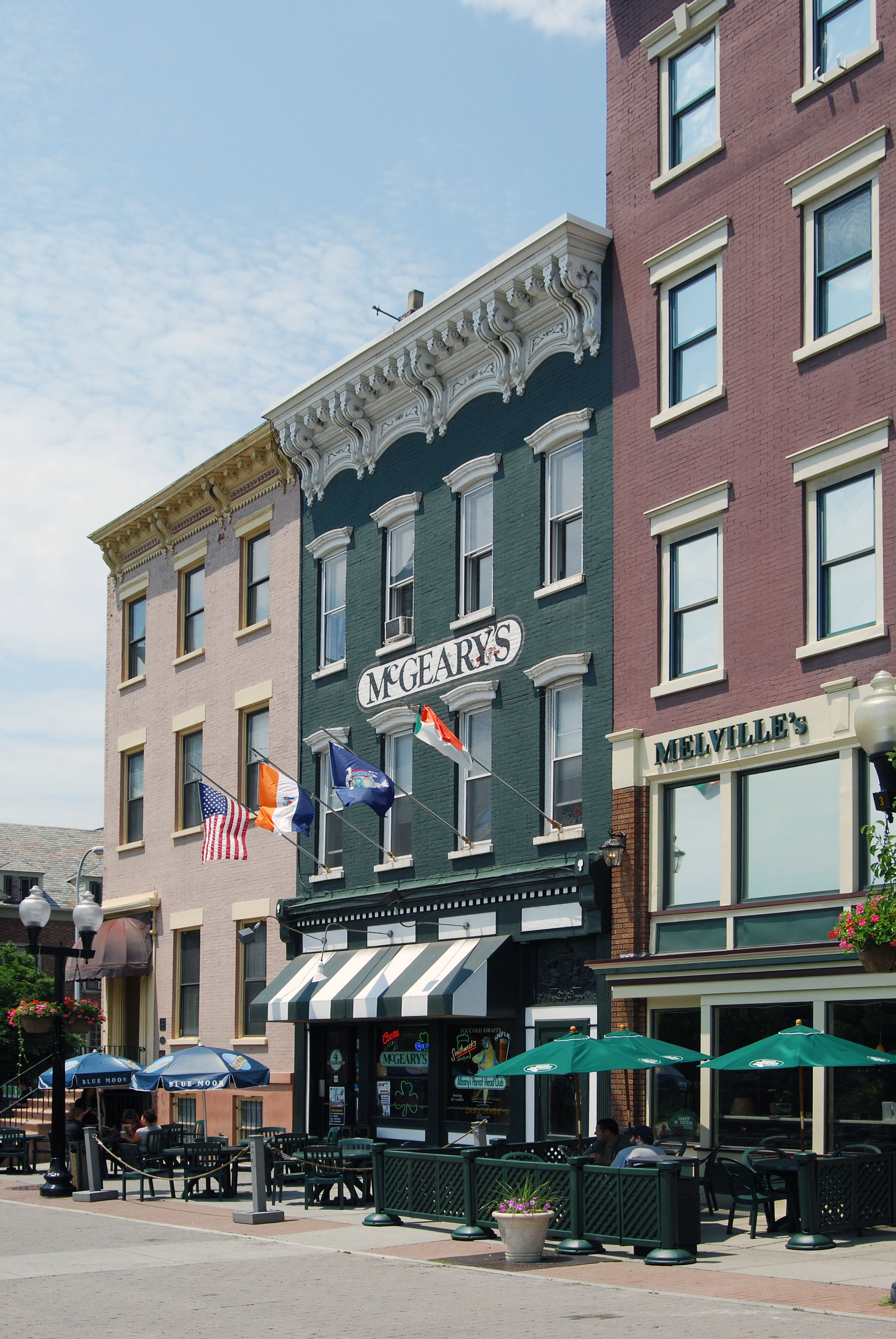 McGeary's Pub on North Pearl Street in Albany, New York, United States